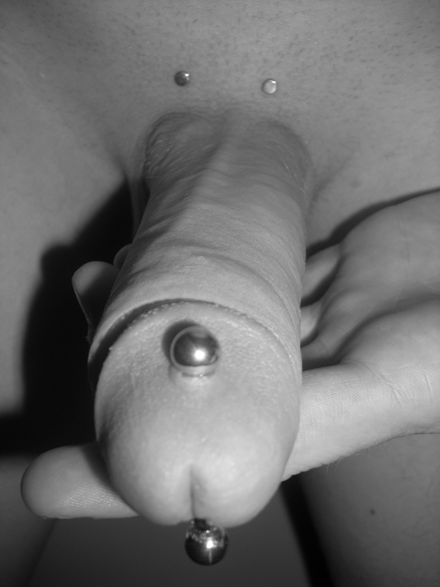 These are my genital piercings. One is an Apadravya which is one of the most painful and wonderful piercings a man can get. And the other is Surface Piercing above the pubic bone.